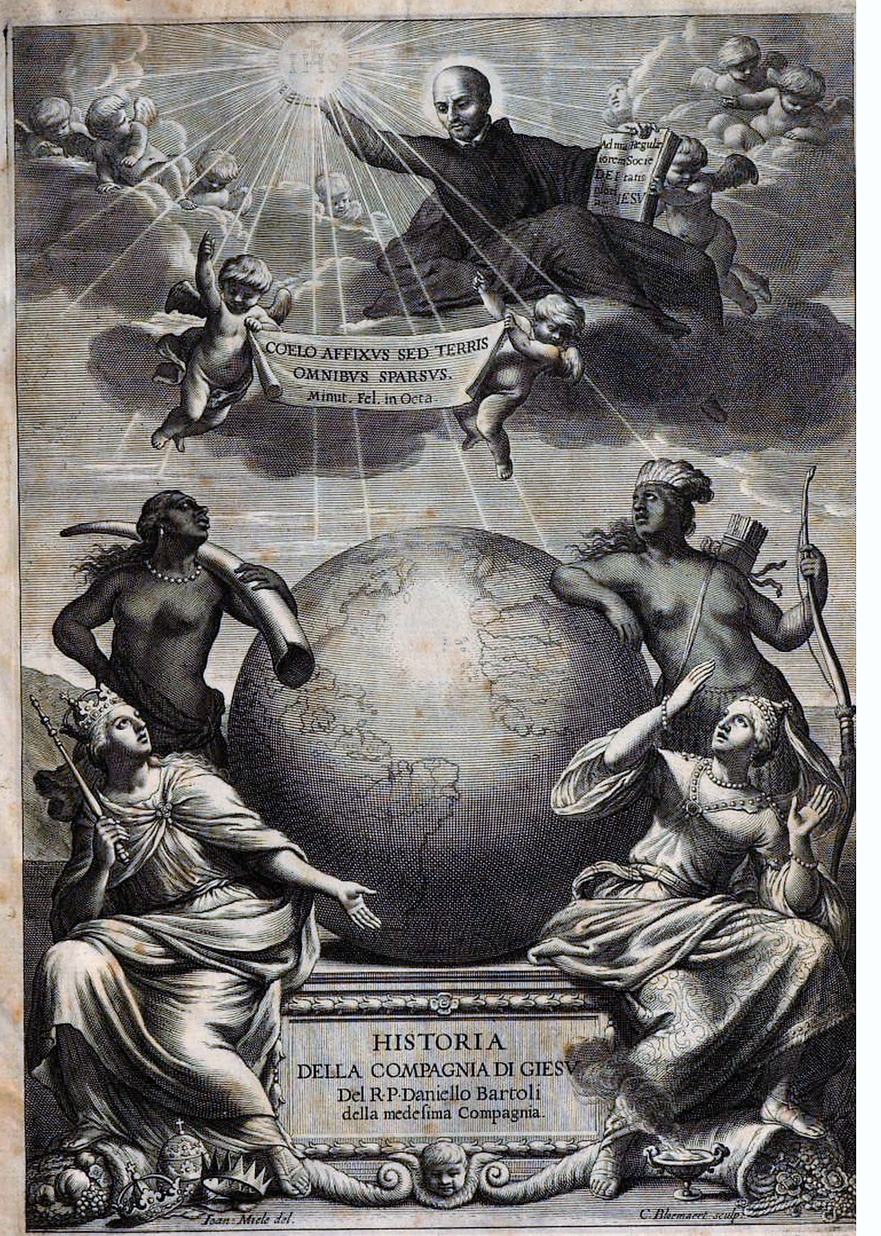 Second edition of Bartoli's biography of Ignatius Loyola 1659